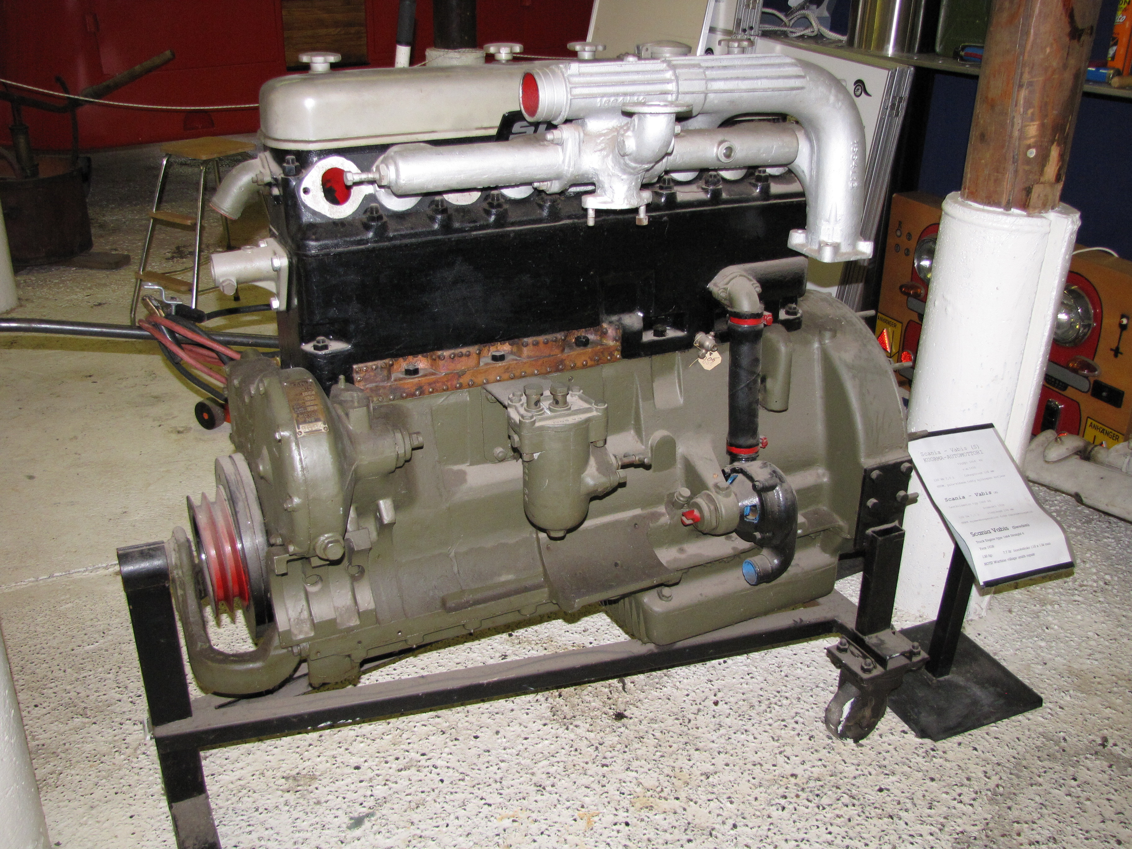 Scania-Vabis type 1664 straight 6 year 1938 truck engine. 130 hp, 7.7 l, bore&stroker 110 x 136 mm. Wartime repairs made by a village smith. Photographed in Espoo Automobile Museum.